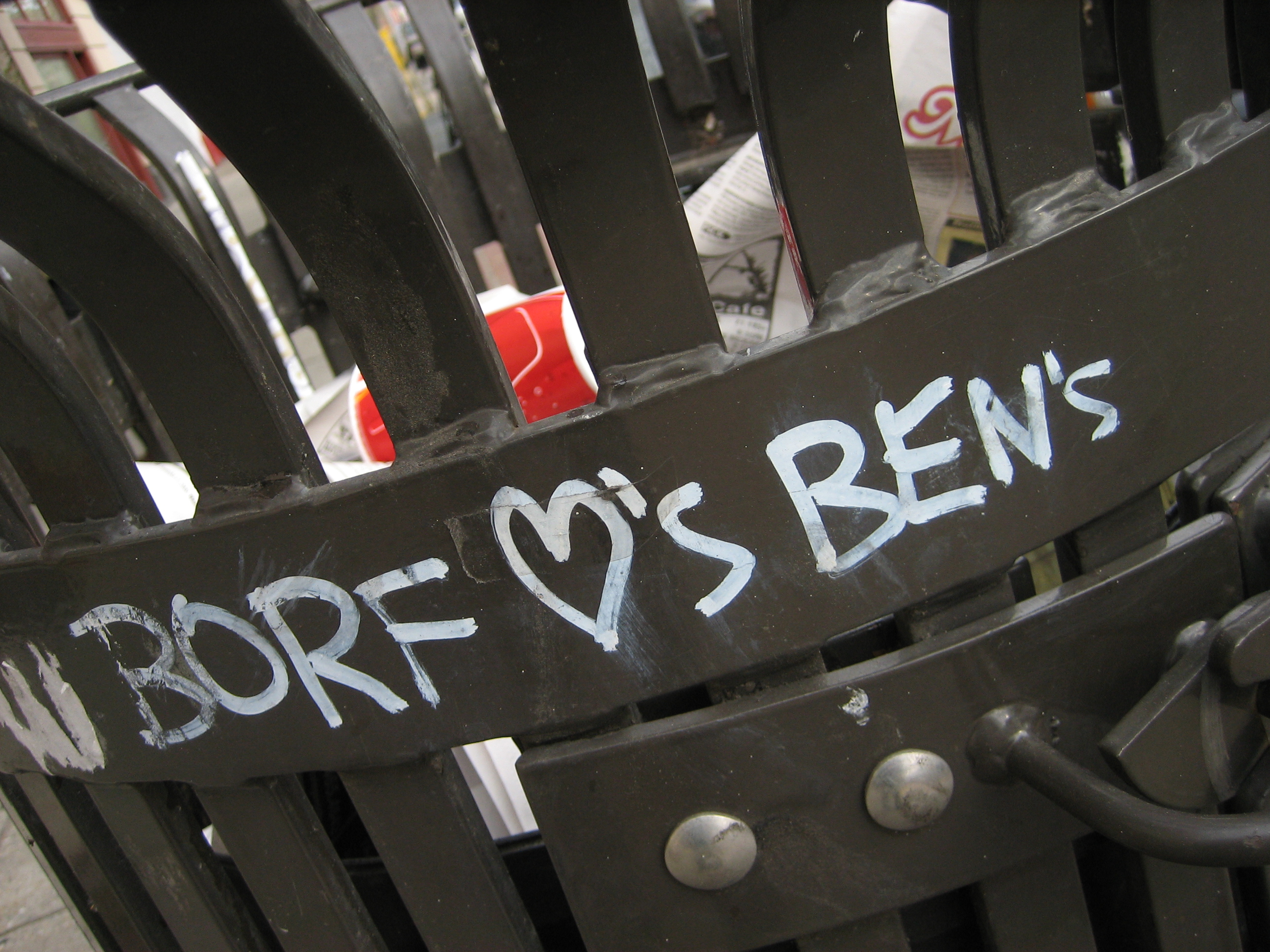 "Borf Loves Ben's" written on a trash can in Washington DC. It is assumed that "Ben's" refers to Ben's Chili Bowl, a local restaurant.